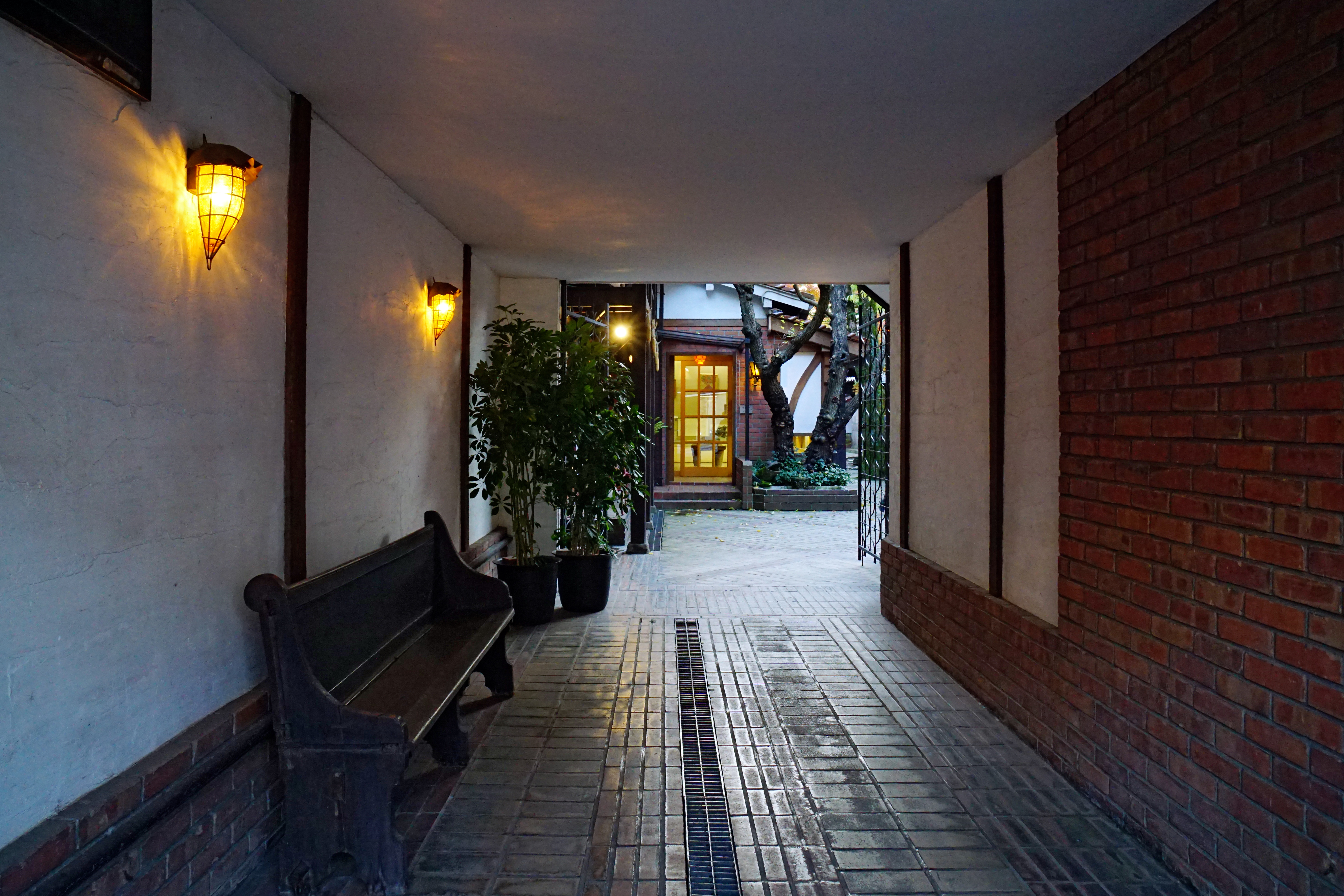 Kogensha in Morioka, Iwate prefecture, Japan